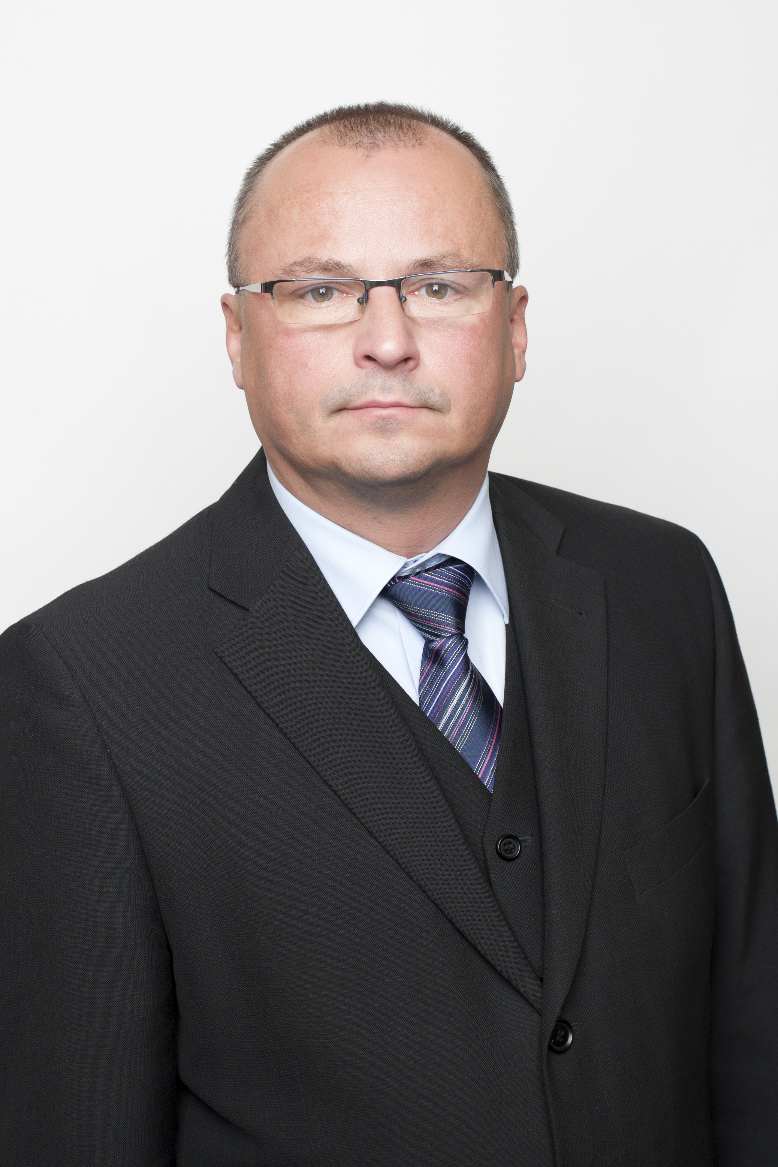 Ing. Petr Vícha, from 2012 member of the Senate of the Parliament of the Czech Republic